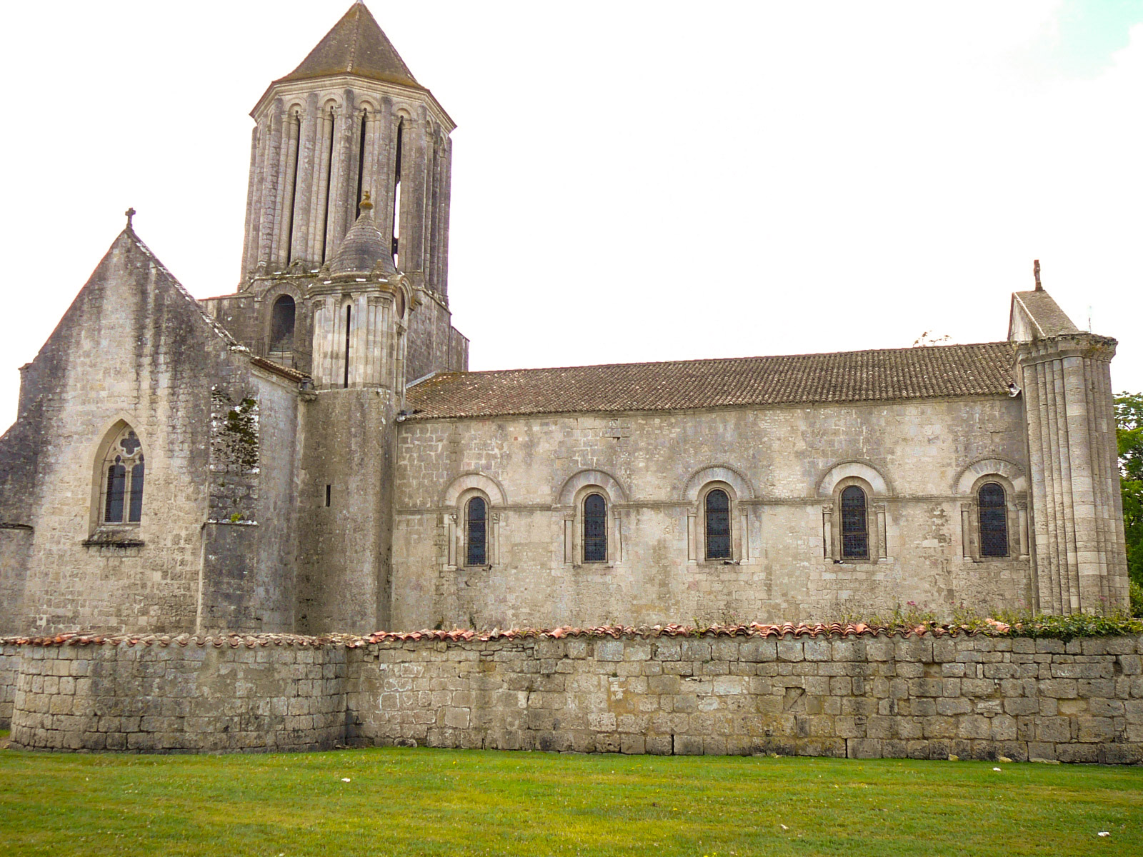 Romanesque church in Surgères. Side. Charente-Maritime (17), Poitou-Charentes, France, Europe.